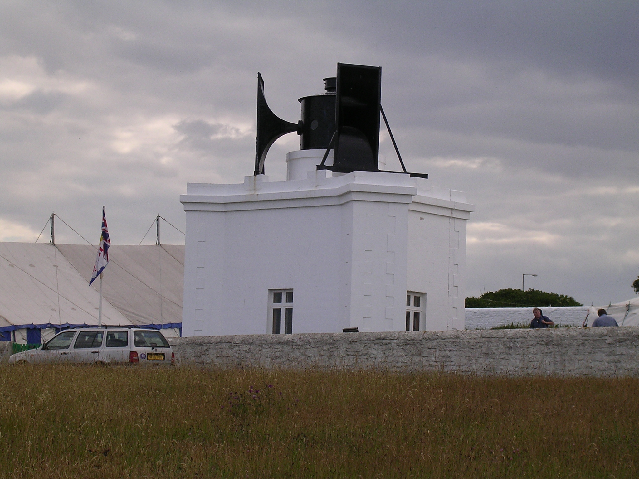 Souter Lighthouse FogHorn - HoM